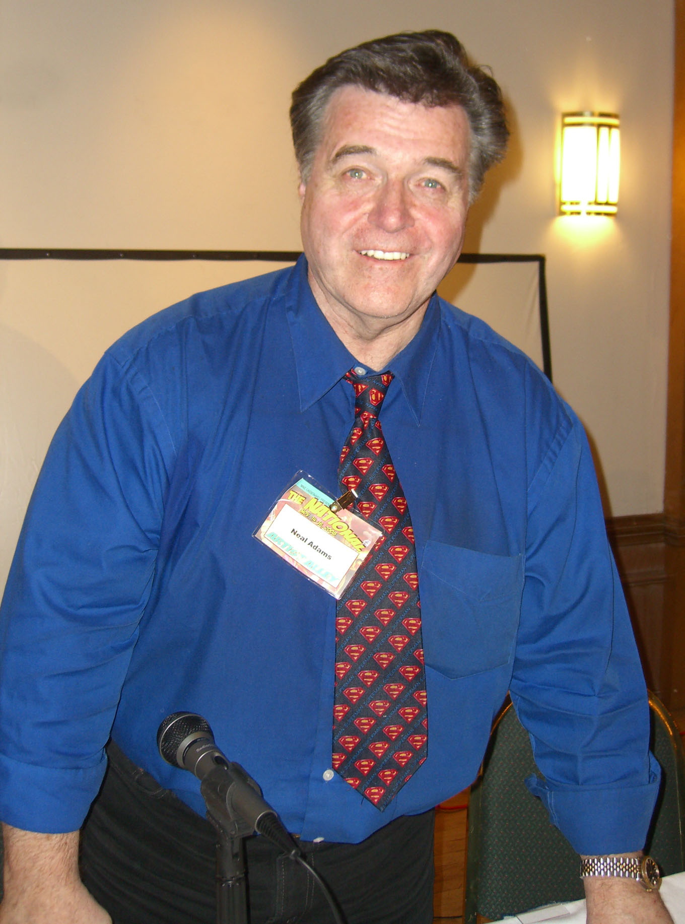 Comic book creator Neal Adams at the November 2008 Big Apple Convention in Manhattan. This photo was created by Luigi Novi. It is not in the public domain, and use of this file outside of the licensing terms is a copyright violation.